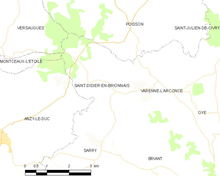 Map of French municipality